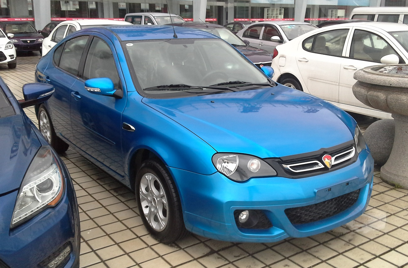 Youngman-Lotus L3 GT hatch photographed in Shanghai, China.